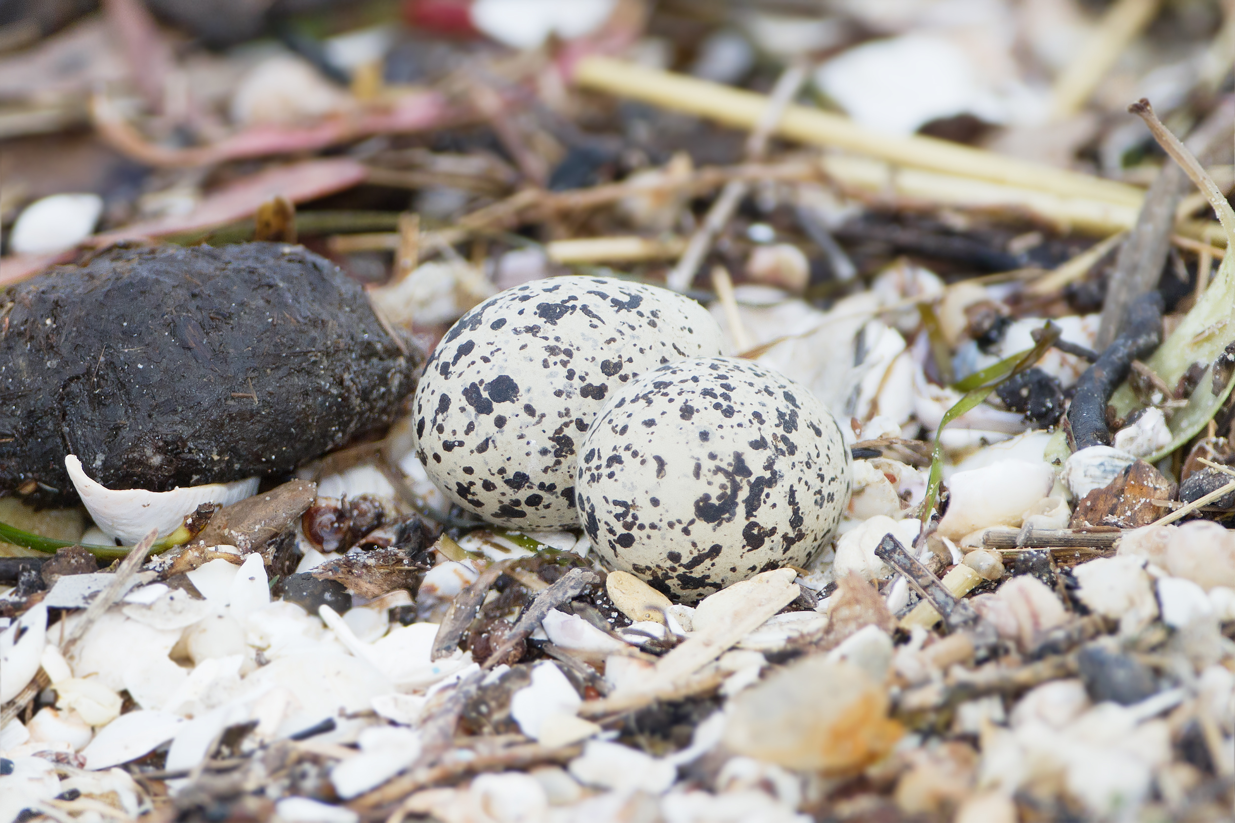 Red-capped Plover (Charadrius ruficapillus) "nest" with eggs, Ralph's Bay, Tasmania, Australia